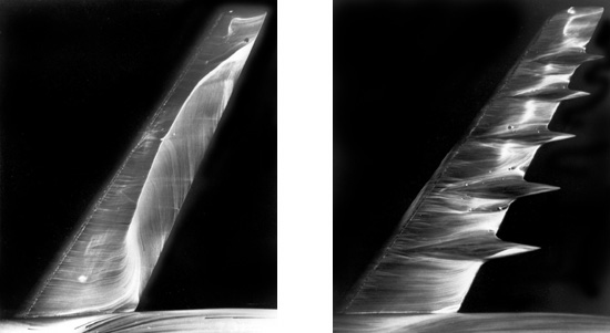 Oil flow visualization of flow separation on a wind tunnel wing model without (left) and with (right) antishock bodies.